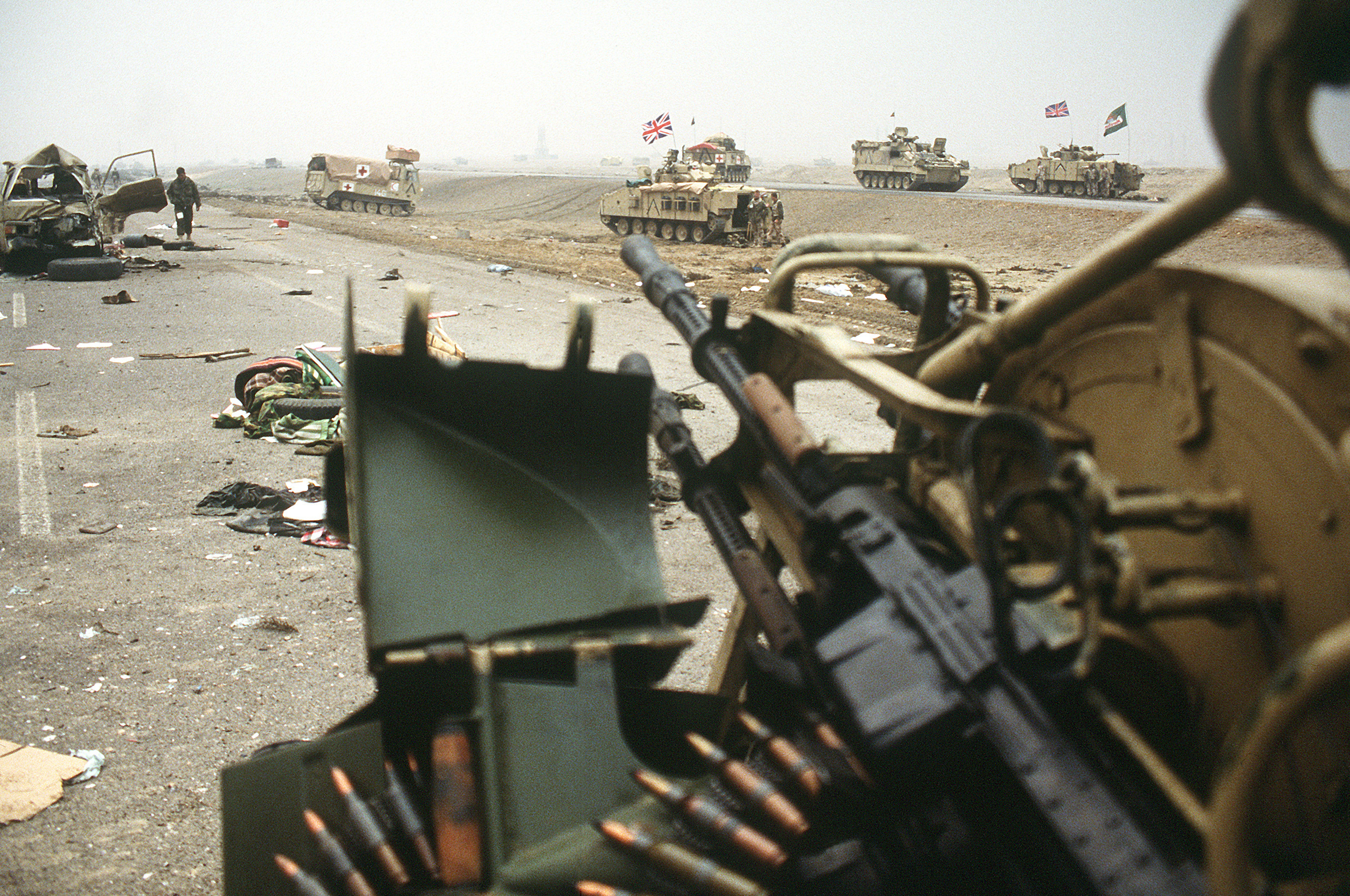 A view of the Basra-Kuwait Highway near Kuwait City after the retreat of Iraqi forces during Operation Desert Storm. In the background are British AFVs (including FV510 Warrior), and in the foreground is an abandoned loaded Iraqi ZPU-4 anti-aircraft gun.